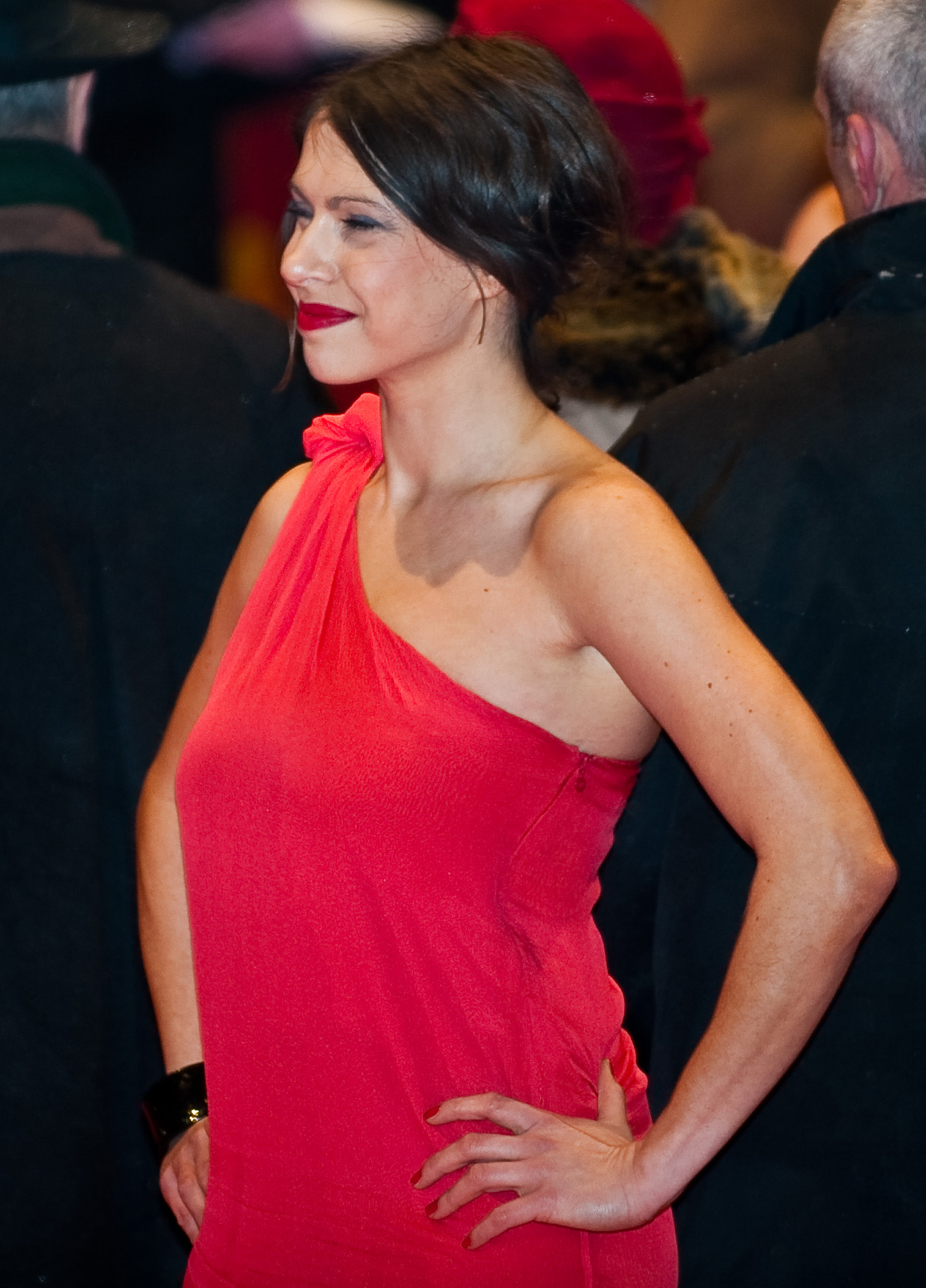 German actress Jana Pallaske arriving at the opening of the 60th Berlin International Film Festival